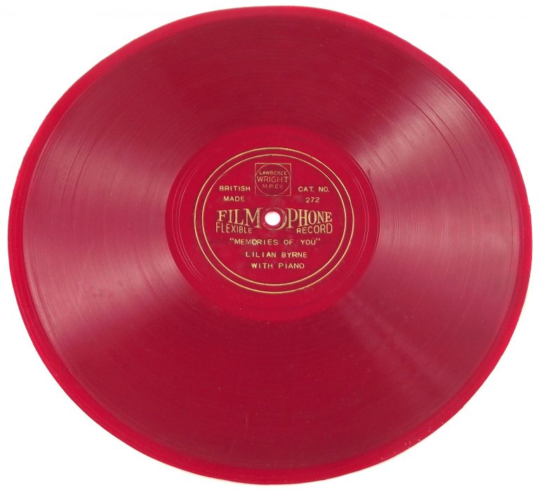 Filmophone flexible record made from red cellulose